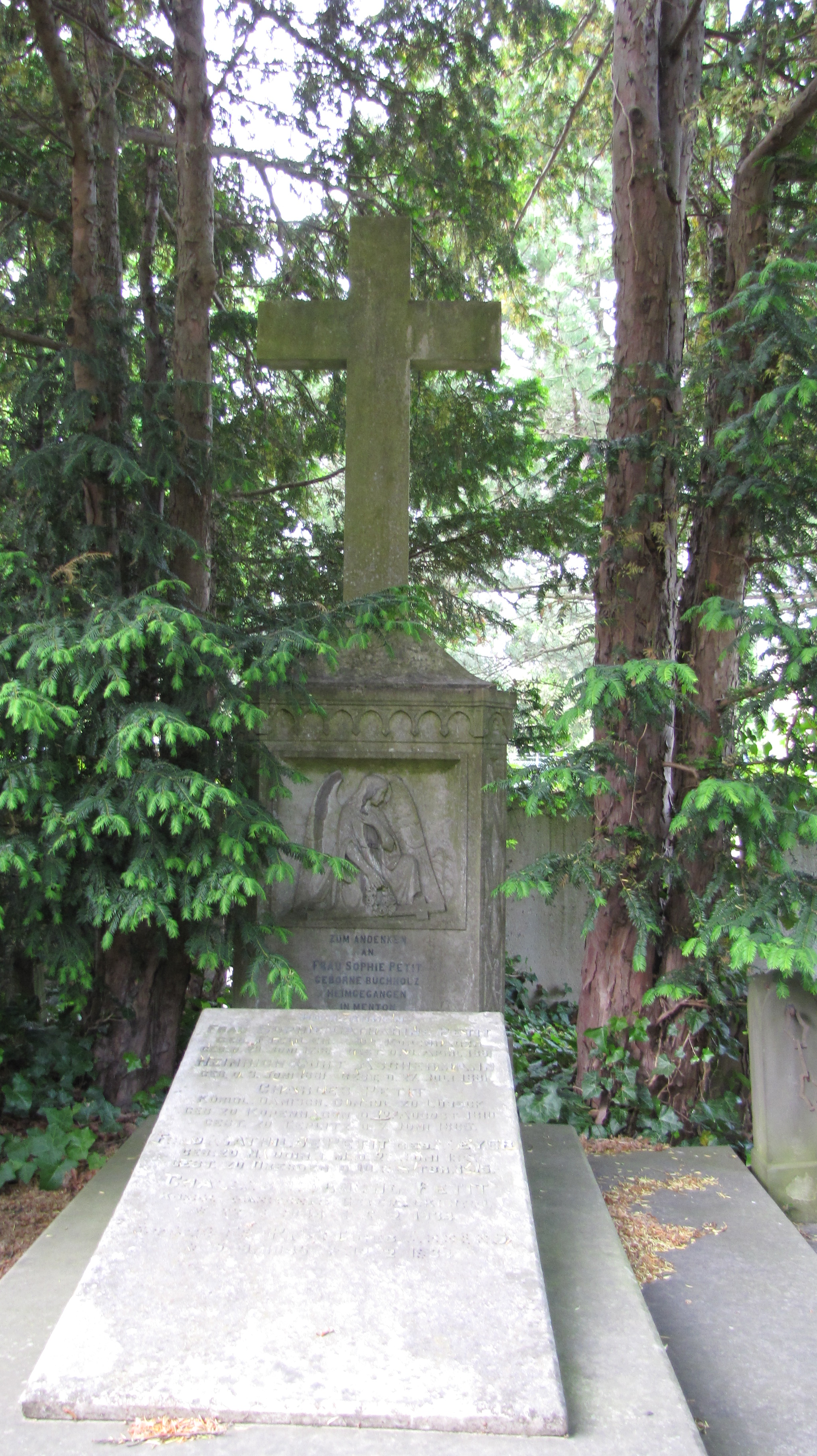 Family grave of the Petit family; St. Jürgen cemetery Lübeck